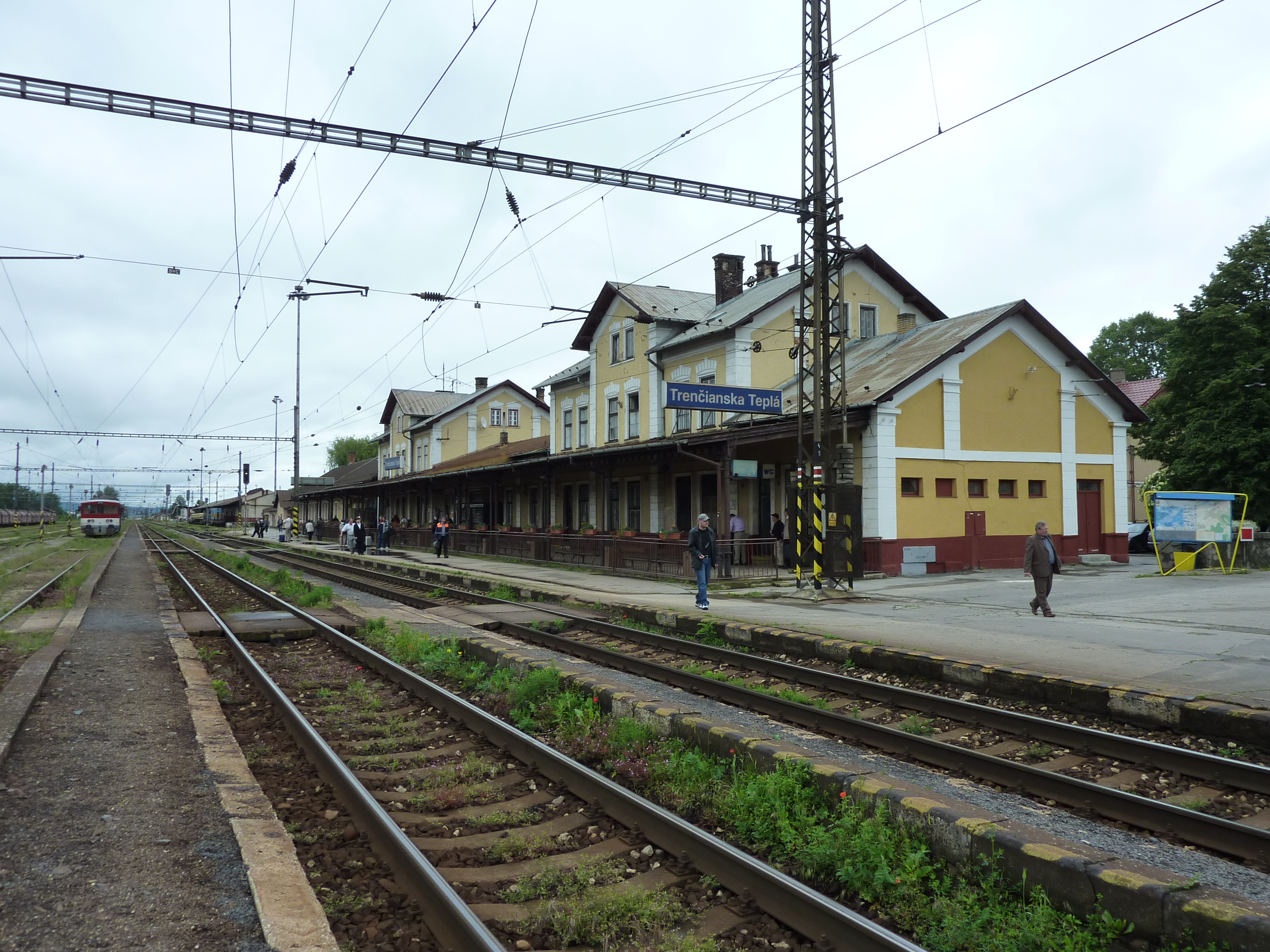 Railway station Trenčianska Teplá in Slovakia